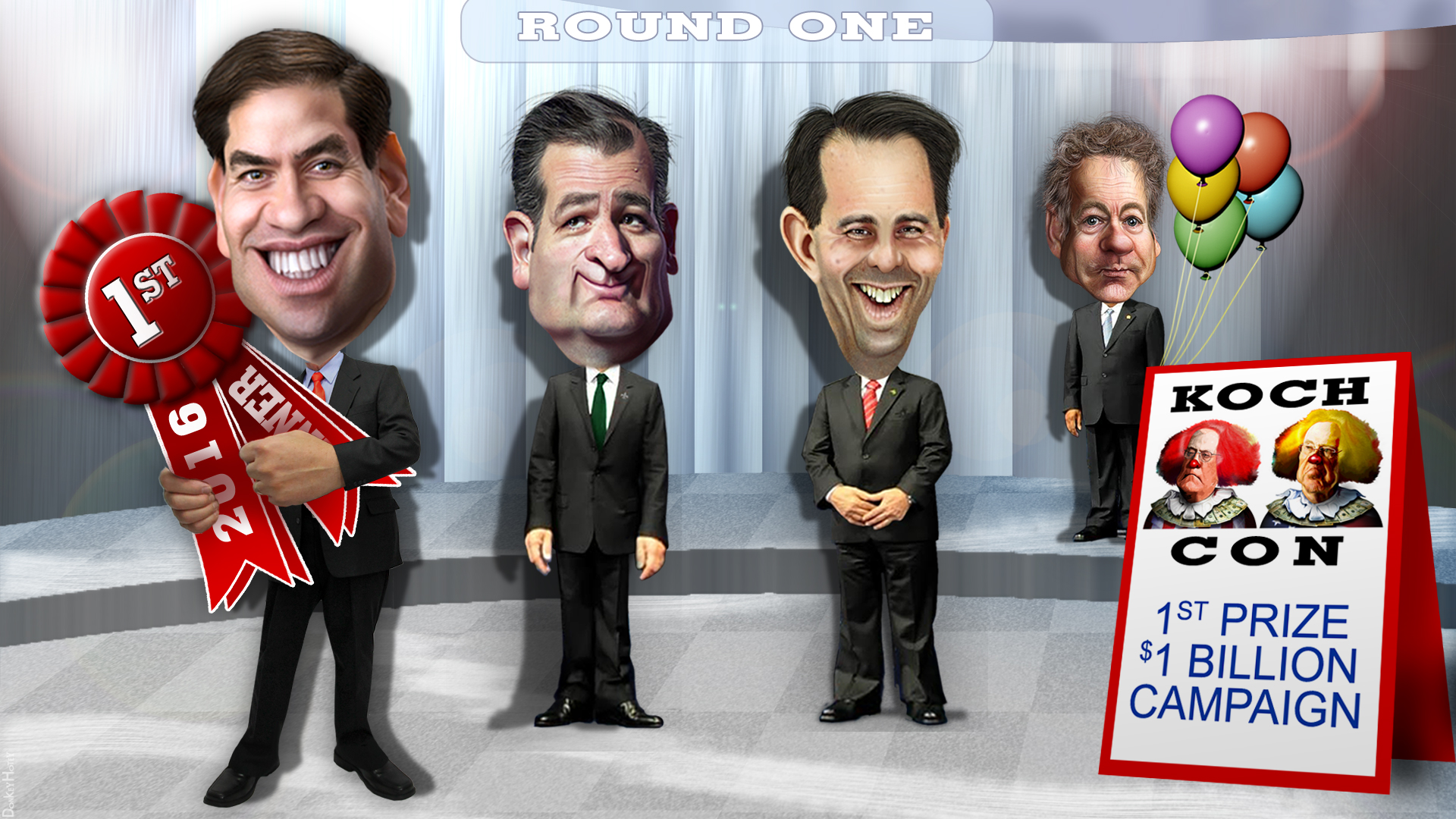 POLITICO: Koch donors give Marco Rubio early nod The Koch Brothers use their immense wealth to influence American government at all levels to their own ends. David Hamilton Koch and Charles de Ganahl Koch are the notorious Koch Bothers. The brothers own Koch Industries and are major benefactors for organizations and candidates involved in pushing radical Republican policies. Politico: 4 GOP hopefuls expected to attend Koch event The bodies in this image are adapted from a Creative Commons licensed image by Presidencia de la Nación Argentin available via Wikimedia. The caricatures are based on the following images: Marco Rubio: a photo in the public domain from Wikipedia. Rand Paul: a Creative Commons licensed photo from Medill DC's Flickr photostream. Scott Walker: a photo in the public domain the United States Air Force. Ted Cruz: a Creative Commons licensed photo from Jamelle Bouie's Flickr photostream.